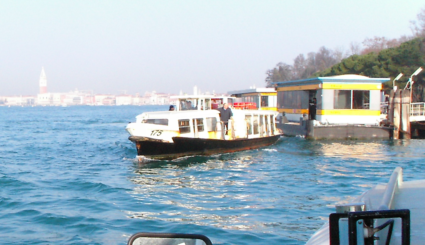 Motoscafo 175 (motor boat), old type, of public service (ACTV) in Venice